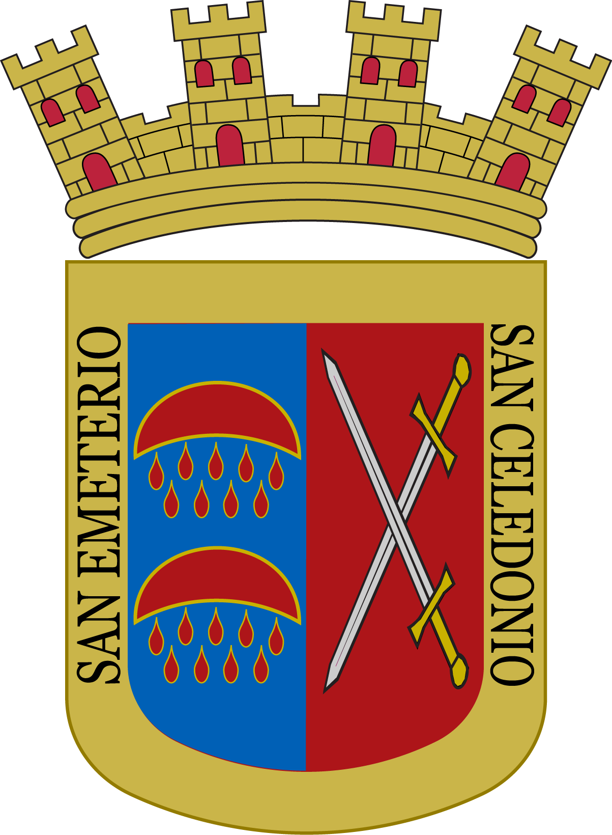 Coat of Arms of Calahorra, La Rioja, Spain